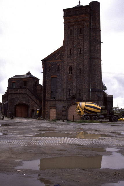 Hydraulic pumping station, Bramley More Dock The spelling is as per the Google Maps satellite image. This is an impressive building with a truncated chimney on the right hand edge of the brick accumulator tower. Hydraulic power was the lifeblood of the dock system and there are several of these installations in various degrees of decrepitude. This was the day we discovered that the Huskisson dock impounding station had gone.